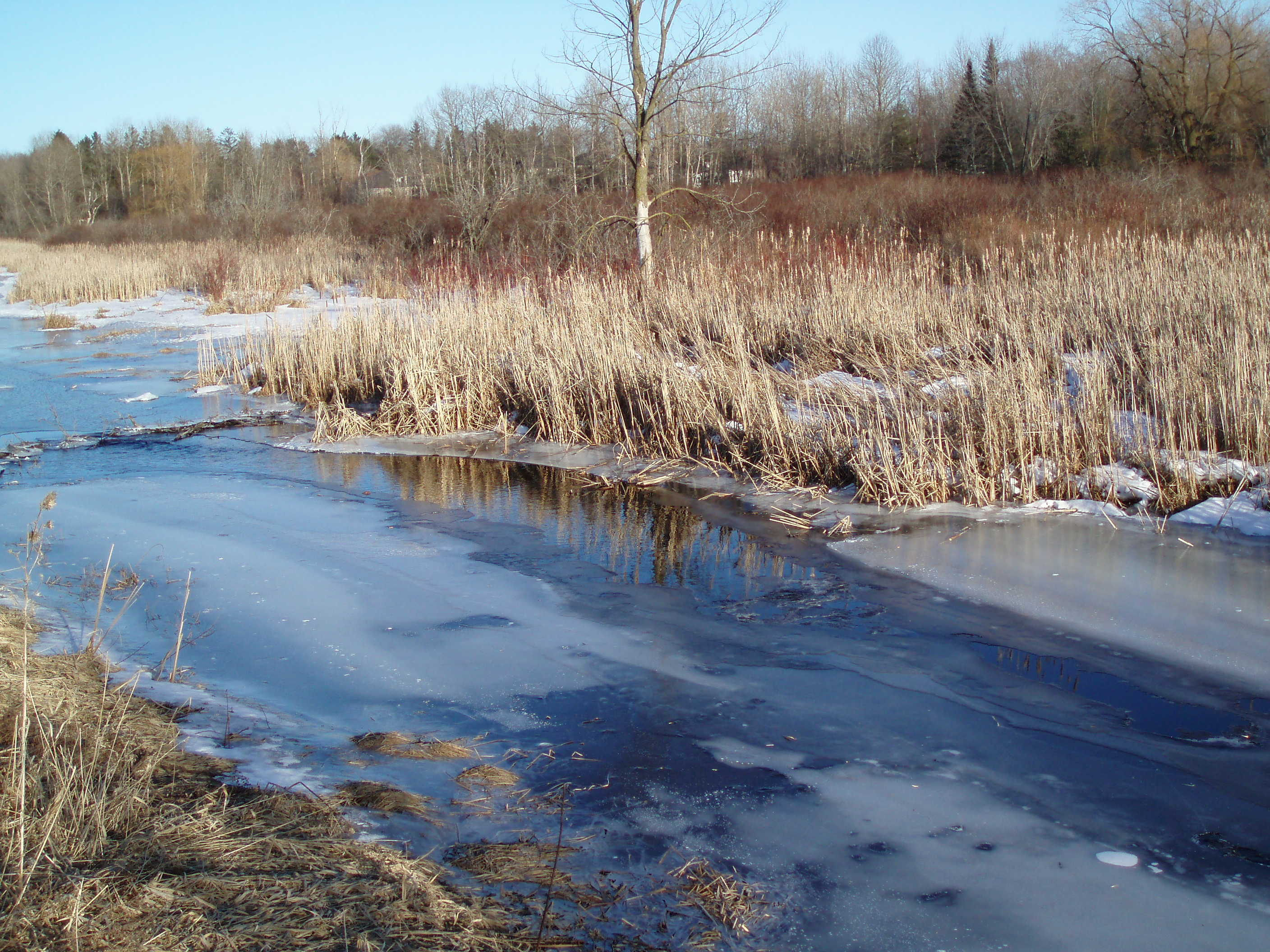 Location: Yonge & King (Oak Ridges)